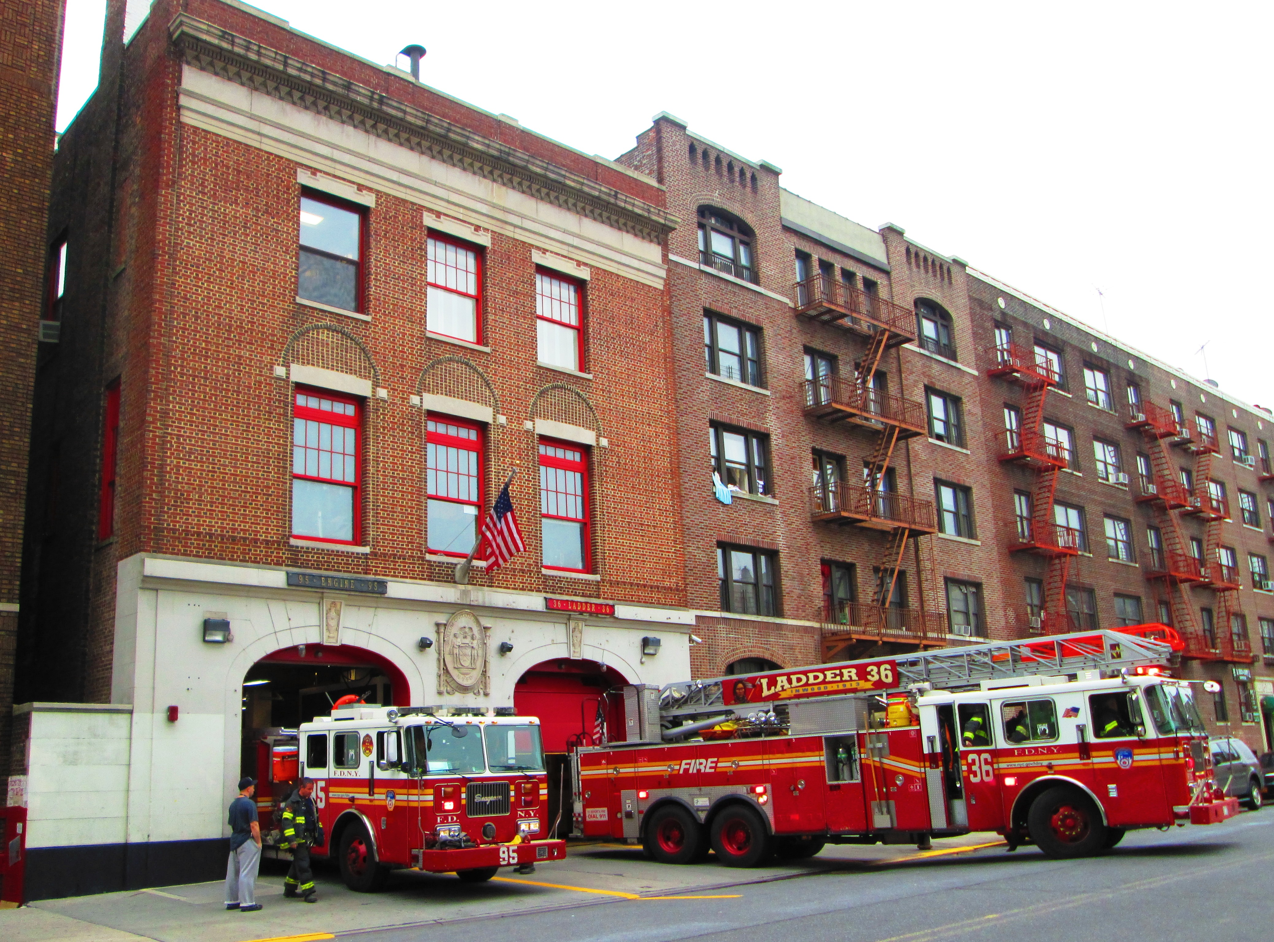 The firehouse of Engine Company 85 and Ladder Company 36, located at 31 Vermilyea Avenue between Academy and Dyckman Streets in the Inwood neighborhood of Manhattan, New York City, was built in 1912 and was designed by Dennison, Hirons & Darvyshire. Engine Company 95 was organized in 1915 and Ladder Company 36 in 1908; it then moved to this firehouse in 1915. (Source: [1])